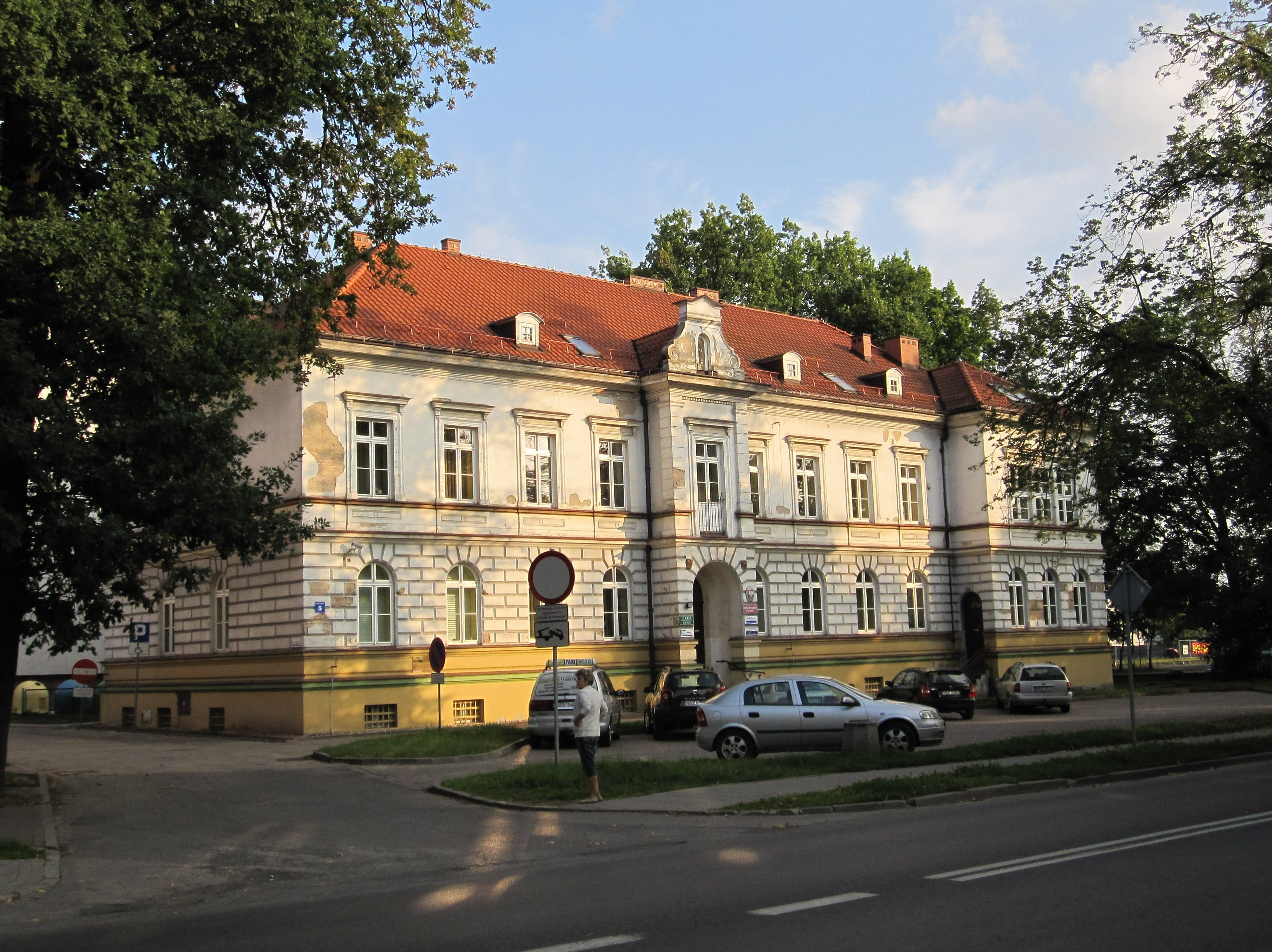 Szczytno - building of the former county headquarter from 1885